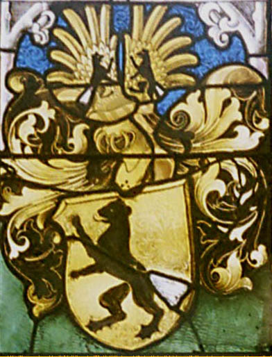 Bibra coat of arm (Wappen) from St. Leo Kirche in Bibra, window date from about 1492, the window is for Albrecht von Bibra who along with Lorenz & Kilian von Bibra were the major patrons for the building of church (they each have their own window too)